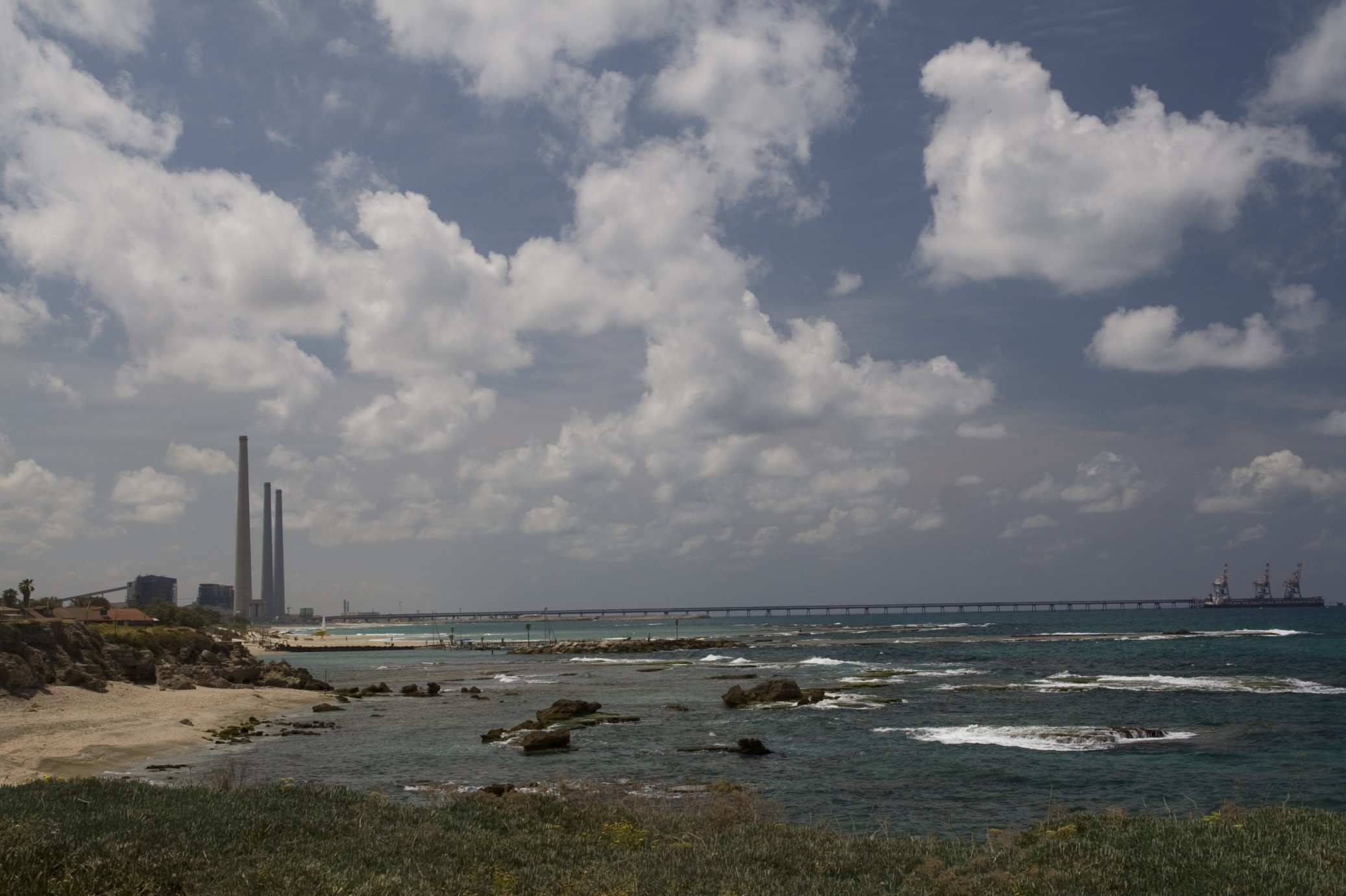 Orot Rabin Power Plant, view from Caesarea Maritima